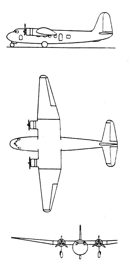 Douglas DC-5 3-view drawing from L'Aerophile August 1939